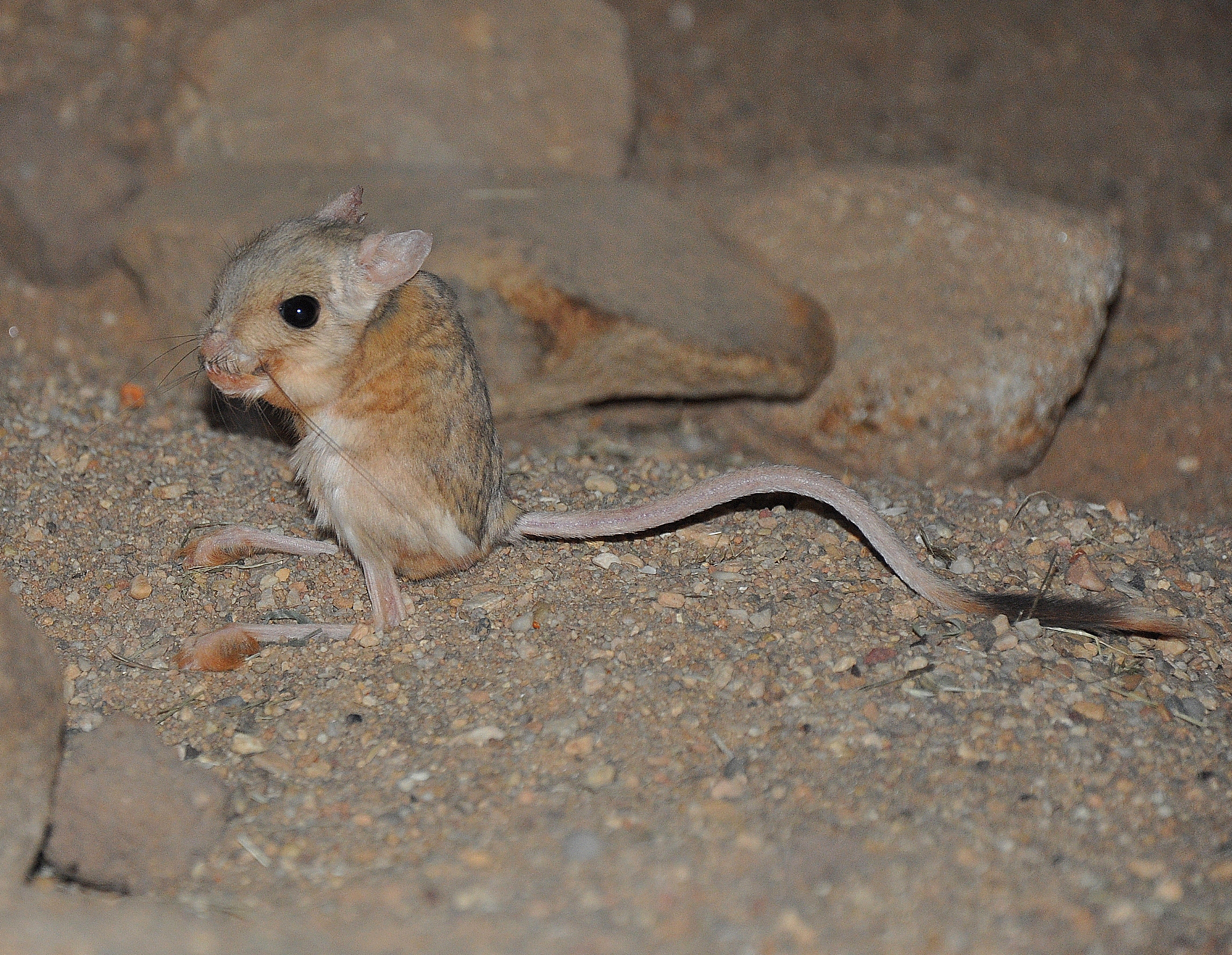 Jaculus jaculus